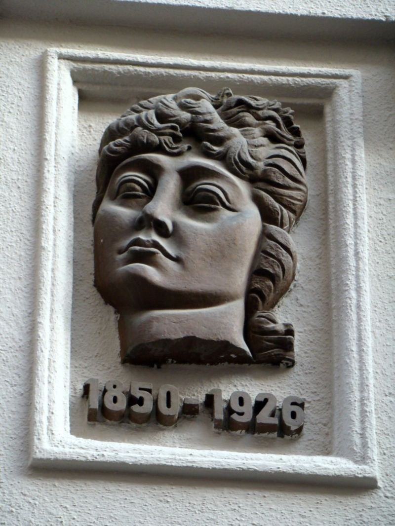 Mari Jászai Relief Plaque (Budapest, Hungarian 34th Street number)